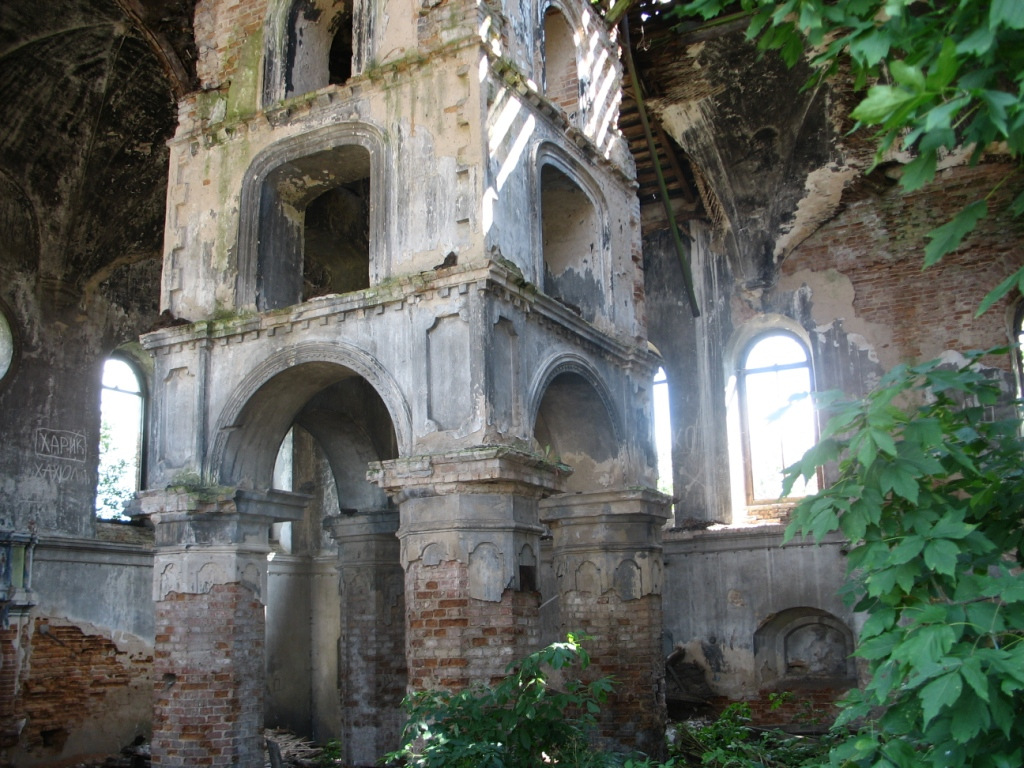 Synagogue (Ruzhany), Belarus